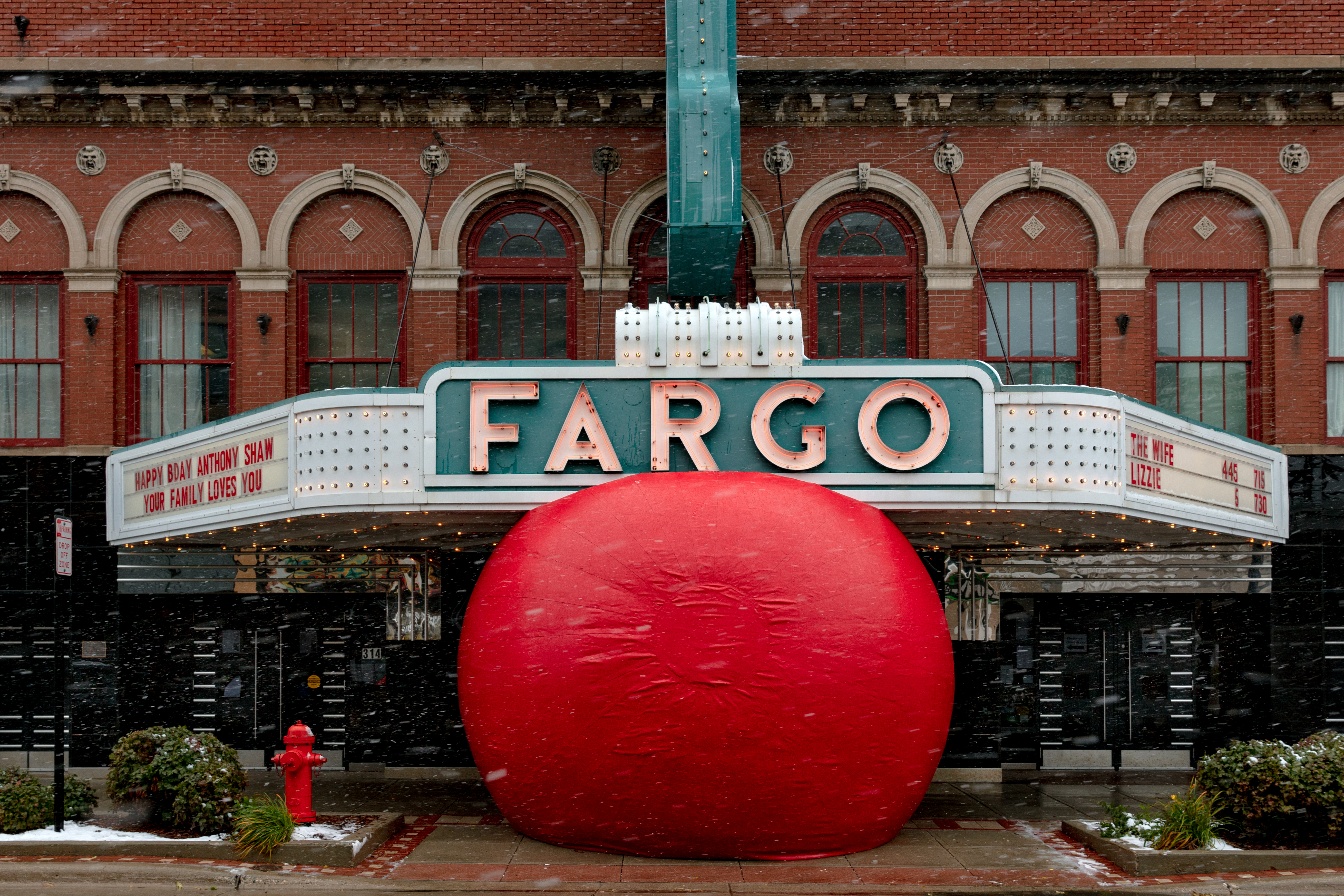 The RedBall is a traveling public art piece by American artist Kurt Perschke & is considered to be the world’s longest-running street art work. It's been to over 30 cities globally.